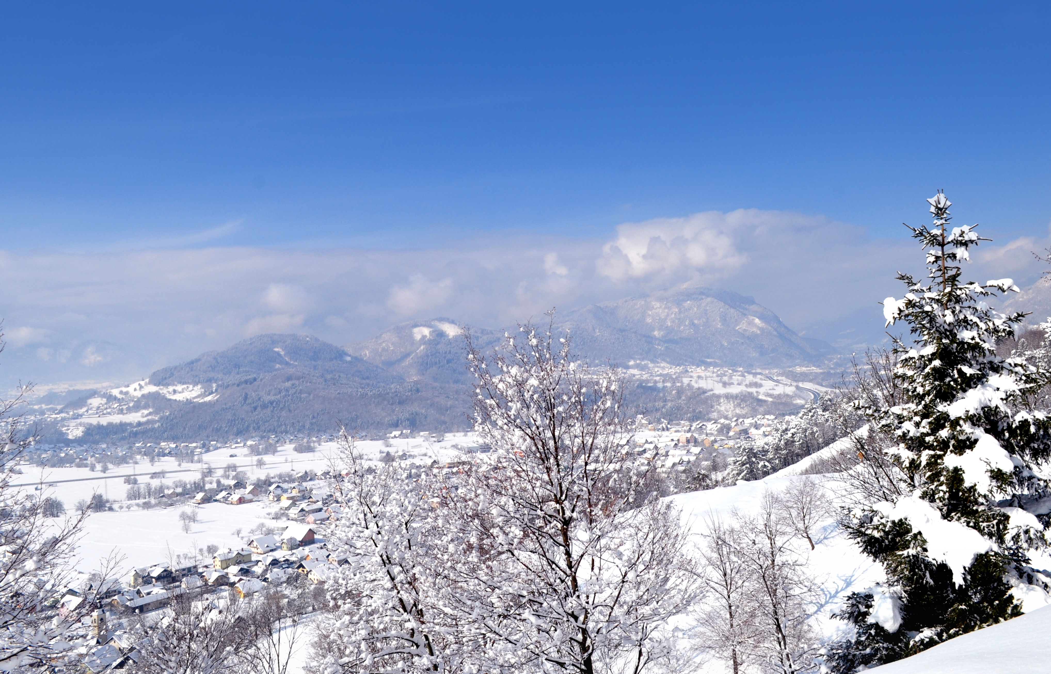 View towards Žirovnica in winter